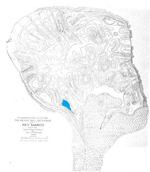 Modification of the map of Key Marco produced for the report on the Smithsonian Institution's Pepper-Hearst Expedition of 1895-1896 by Wells Moses Sawyer, showing the location and size of the pond called "the Court of the Pile Dwellers".